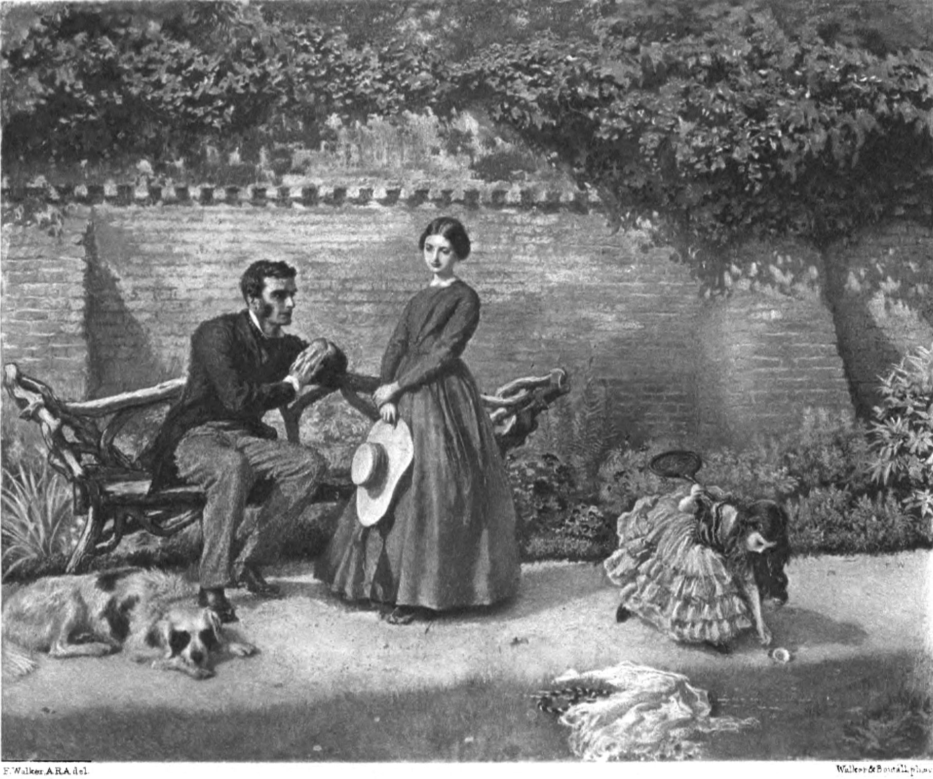 Rochester and Jane Eyre. From a watercolour drawing by Frederick Walker, A.R.A.